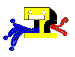 es el glifo erroneo